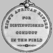 Reverse of King's African Rifles Distinguished Conduct Medal, British colonial medal awarded 1903-1942.